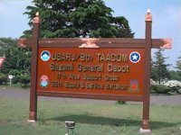 US Army Japan picture of a sign at Sagami General Depot